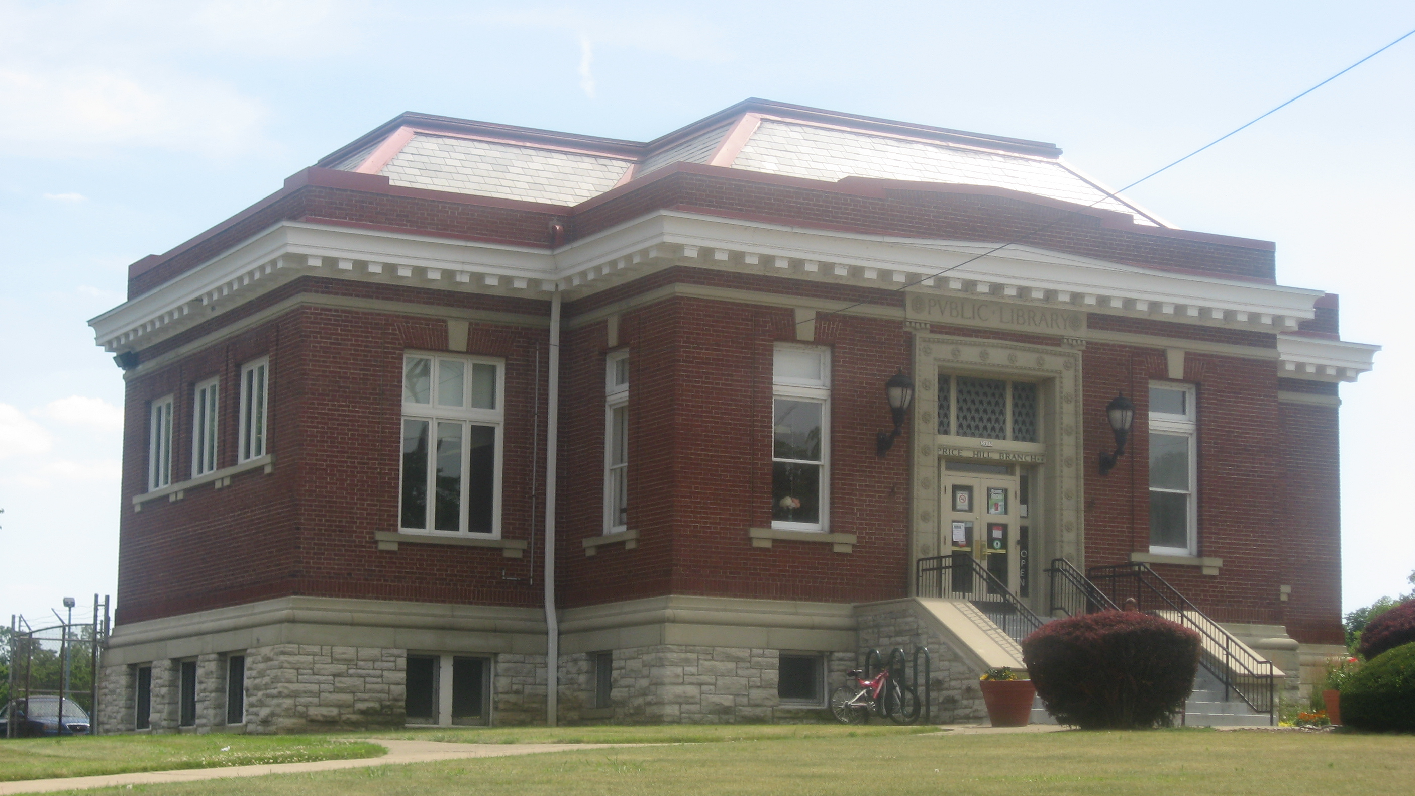 Front and eastern side of the Price Hill branch of the Public Library of Cincinnati and Hamilton County, located at 3215 Warsaw Avenue in Cincinnati, Ohio, United States. A Carnegie library built in 1909, it is still used as a public library.